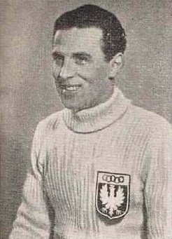 Spirydion Albański, polish football player.